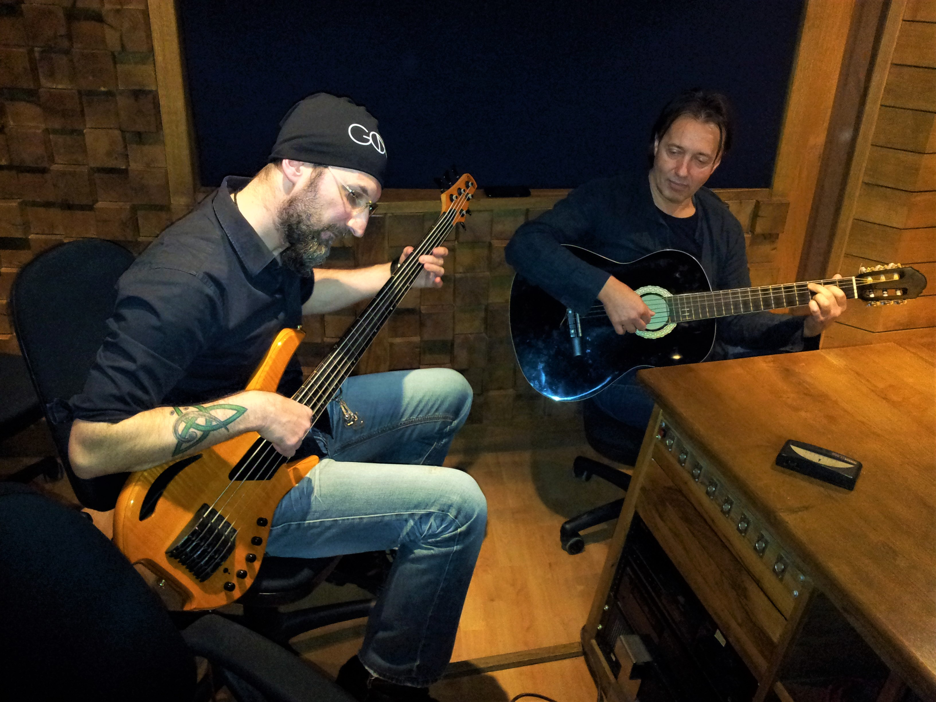 Kresimir Kastelan i Zele Lipovaca . Recording session in Sismis studio for album "Internal waves of love". 2014.